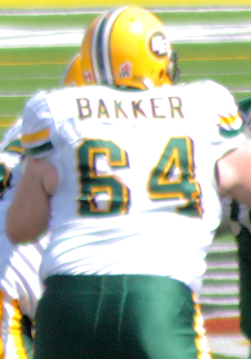 Ricky Ray dropping back to pass. Edmonton Eskimos at Saskatchewan Roughriders, Canadian Football League (CFL)